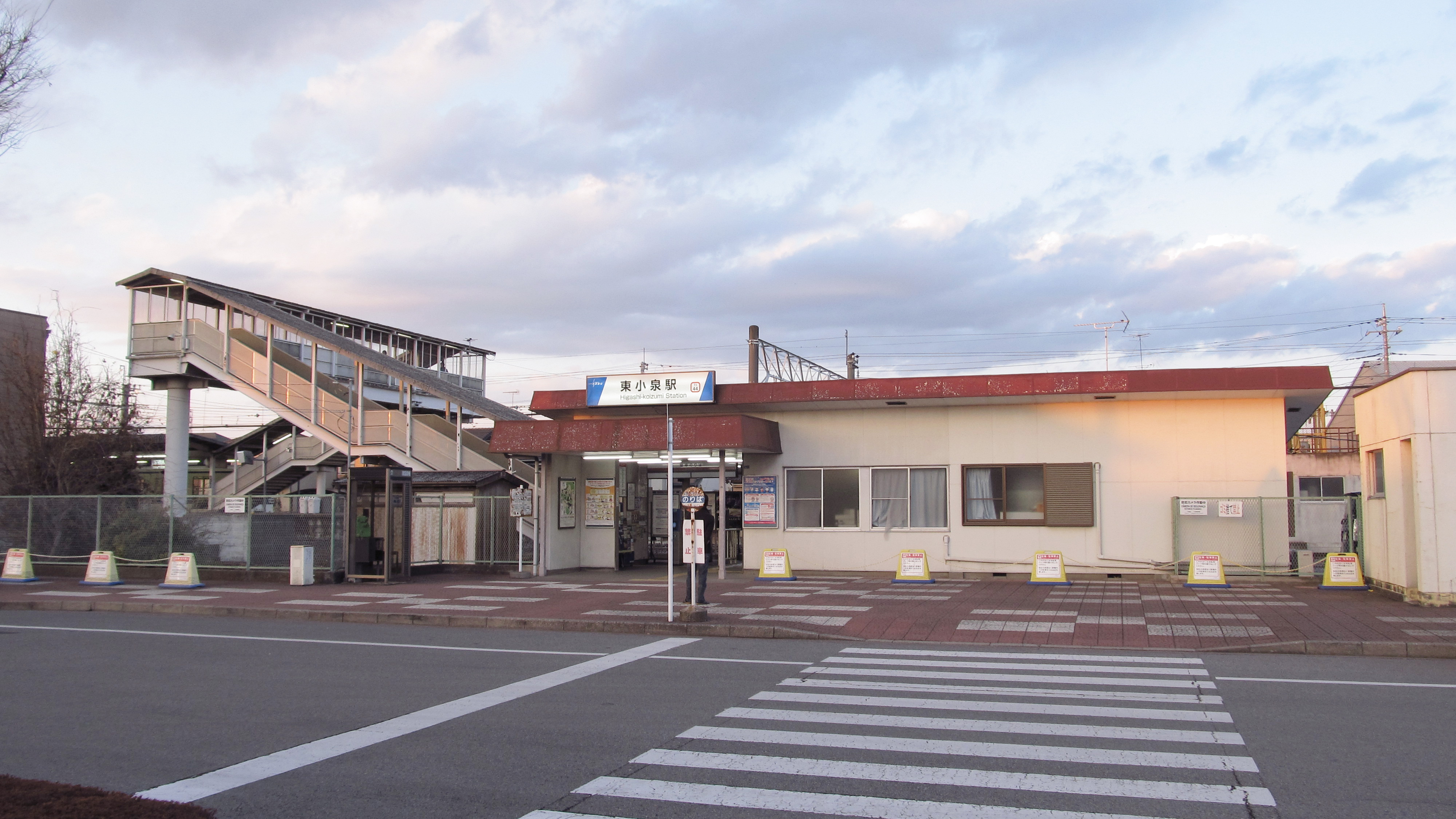 The building of Higashi-Koizumi Station on the Tobu Railway Koizumi Line in Ōizumi town, Gumma prefecture, Japan